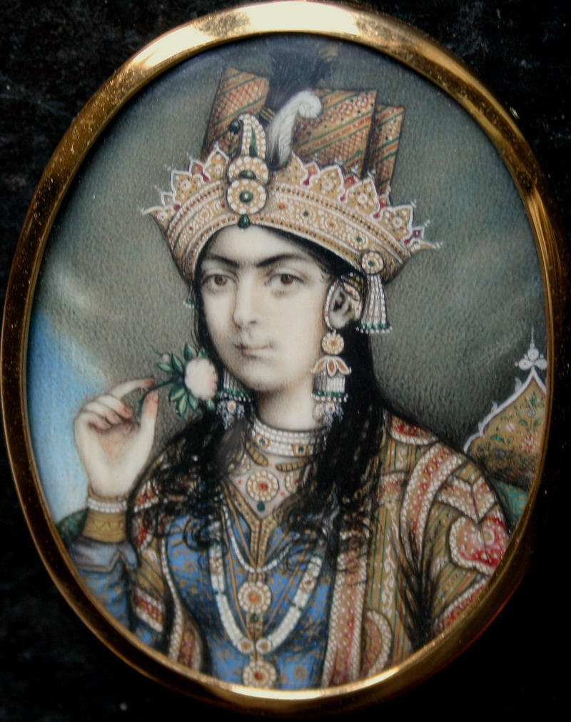 Posthumous portrait of Nurjahan, wife of Mughal Emperor Jahangir (1570 - 1627). Anglo-Indian (or "Company School") tradition at Delhi, circa 1840. Gouache and gold on ivory in 20th century frame (retains original domed glass).